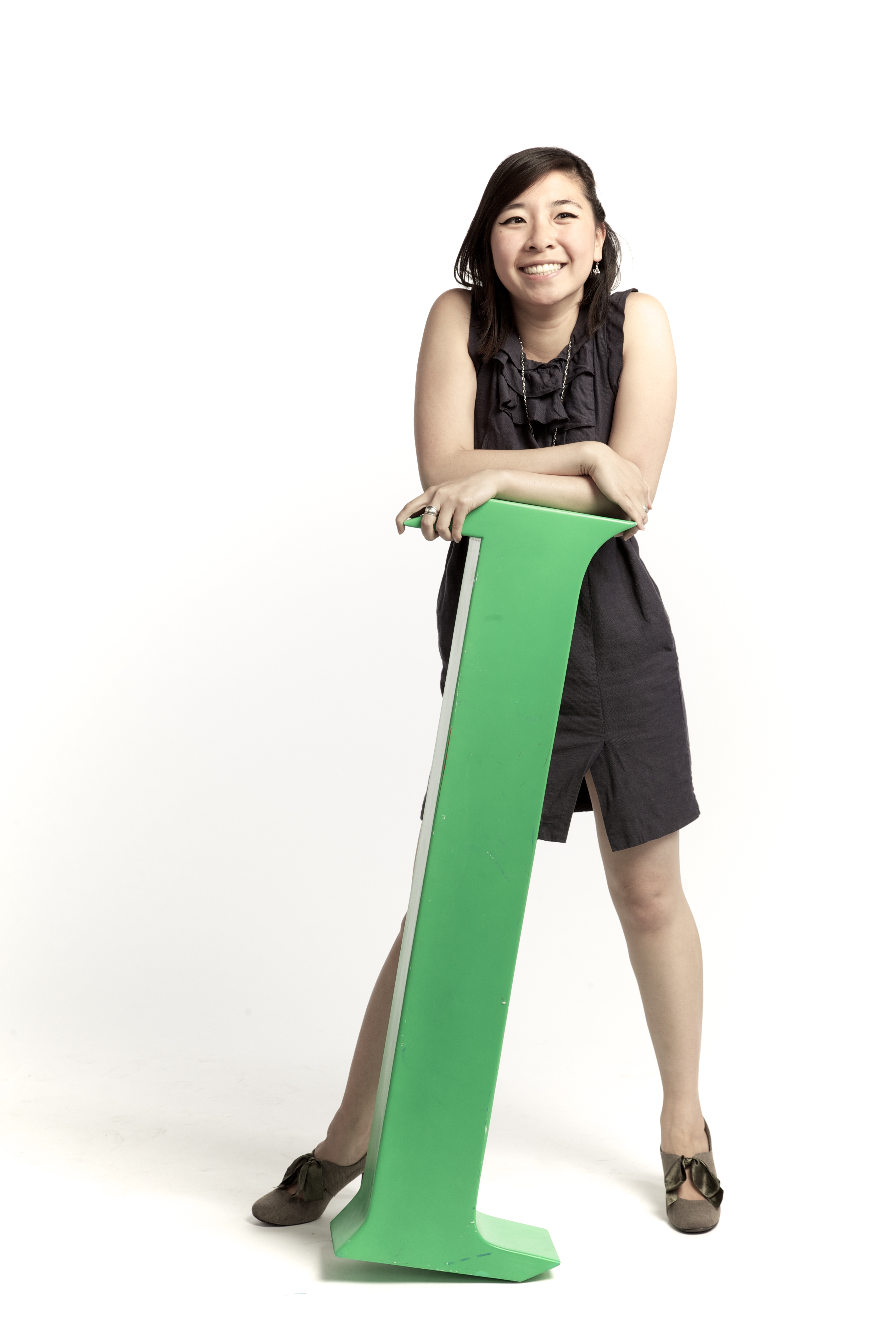 Google employee and "Doodler", Jennifer Hom.